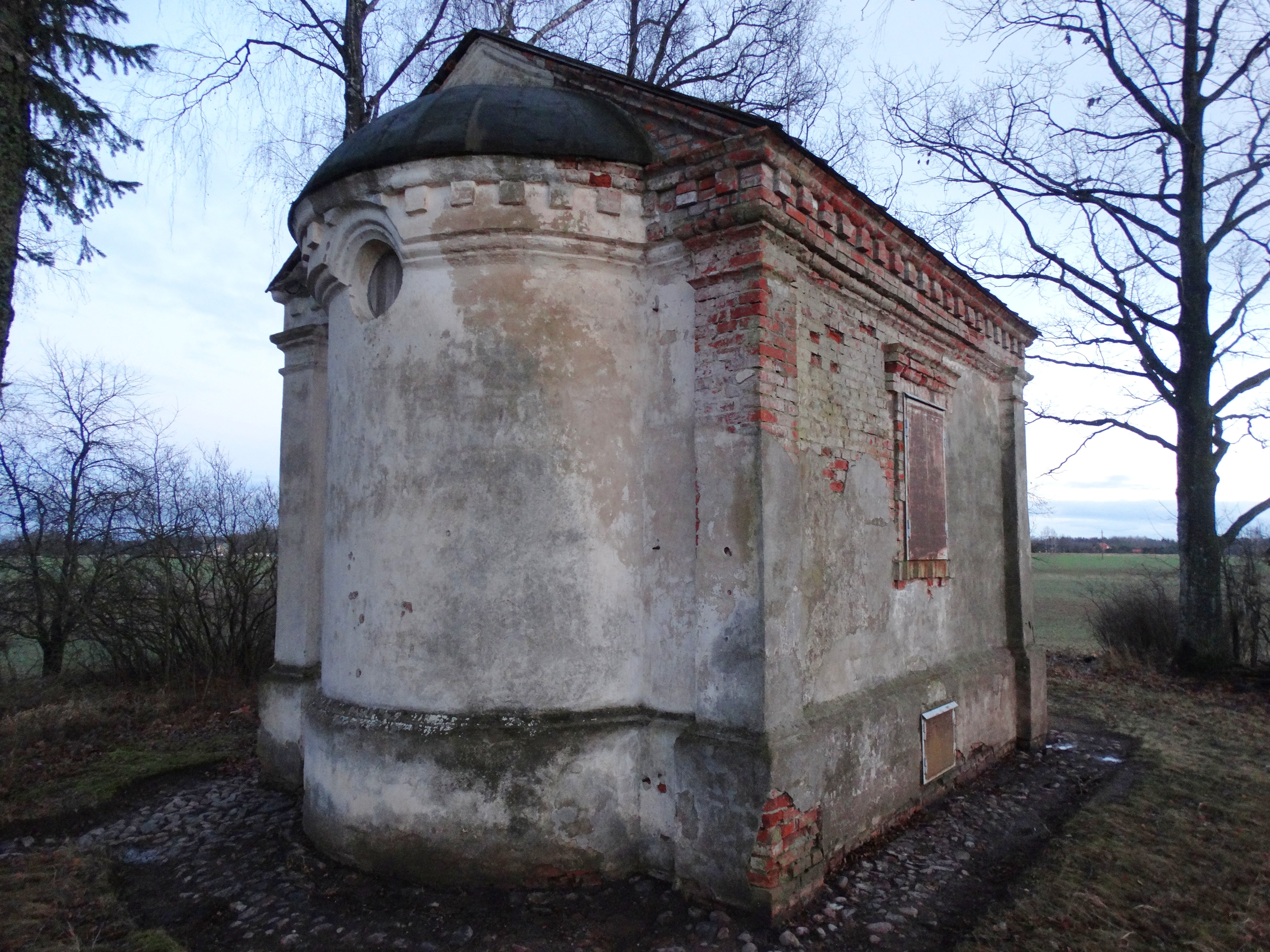 Naukaimis Chapel,Jurbarkas district, Lithuania